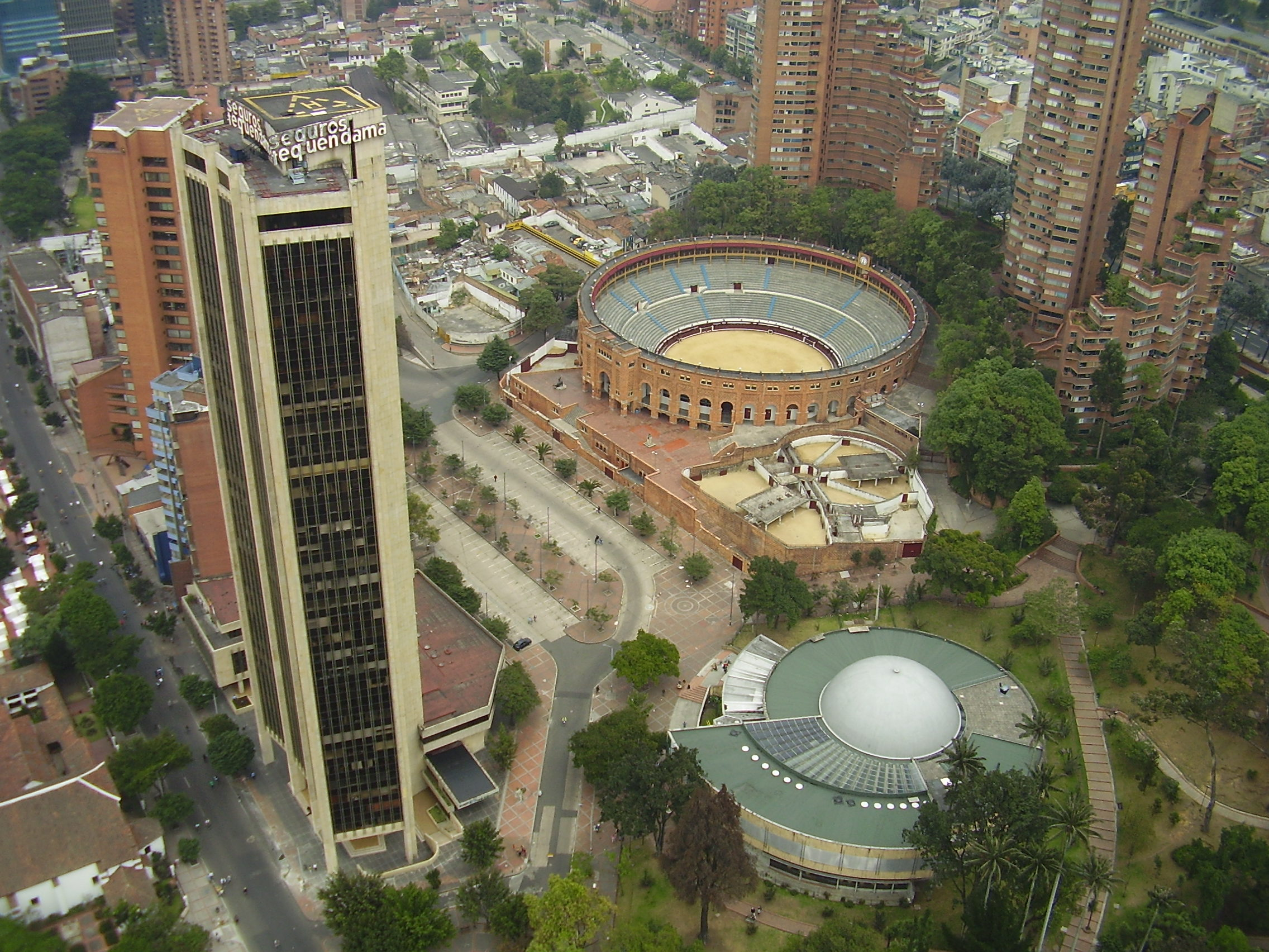 Square of bulls La Santamaria, planetarium and near buildings